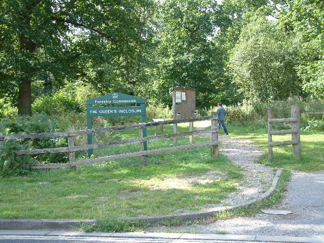 The Queen's Inclosure, Cowplain. This is a fragment of the former Royal Forest of Bere, probably named after Queen Victoria. It contains many large sessile oaks, some nearly 200 years old.